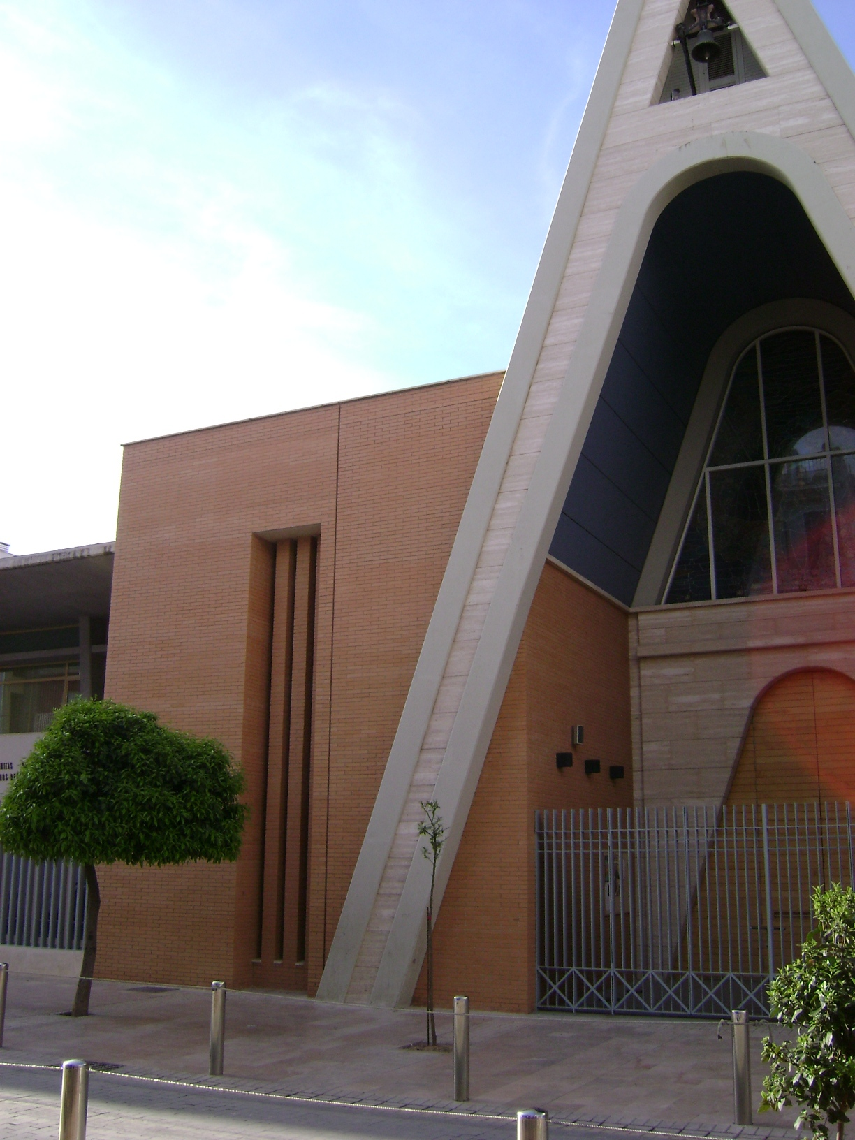 Santa Susana's church in Puente Genil